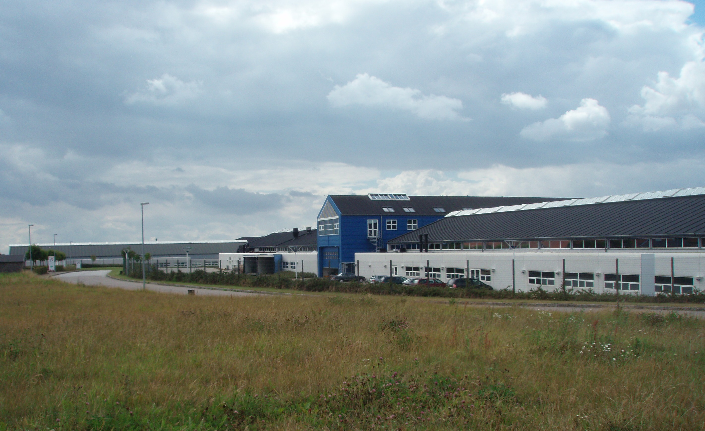 Factory buildings belonging to Linak A/S, Guderup, Denmark